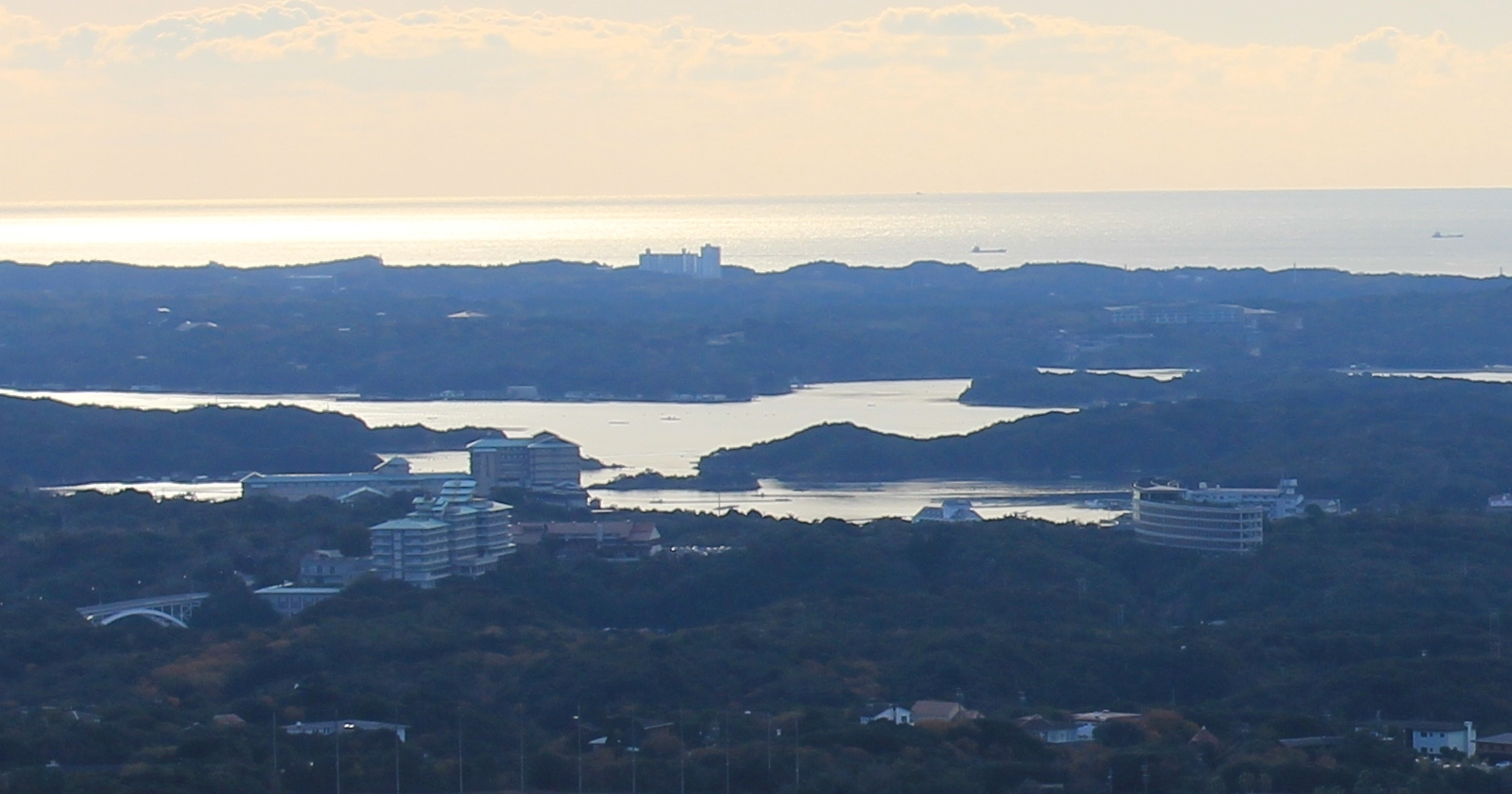 Shima Kanko Hotel seen from Yokoyama Viewpoint in Kashikojima, Shima, Mie prefecture, Japan.